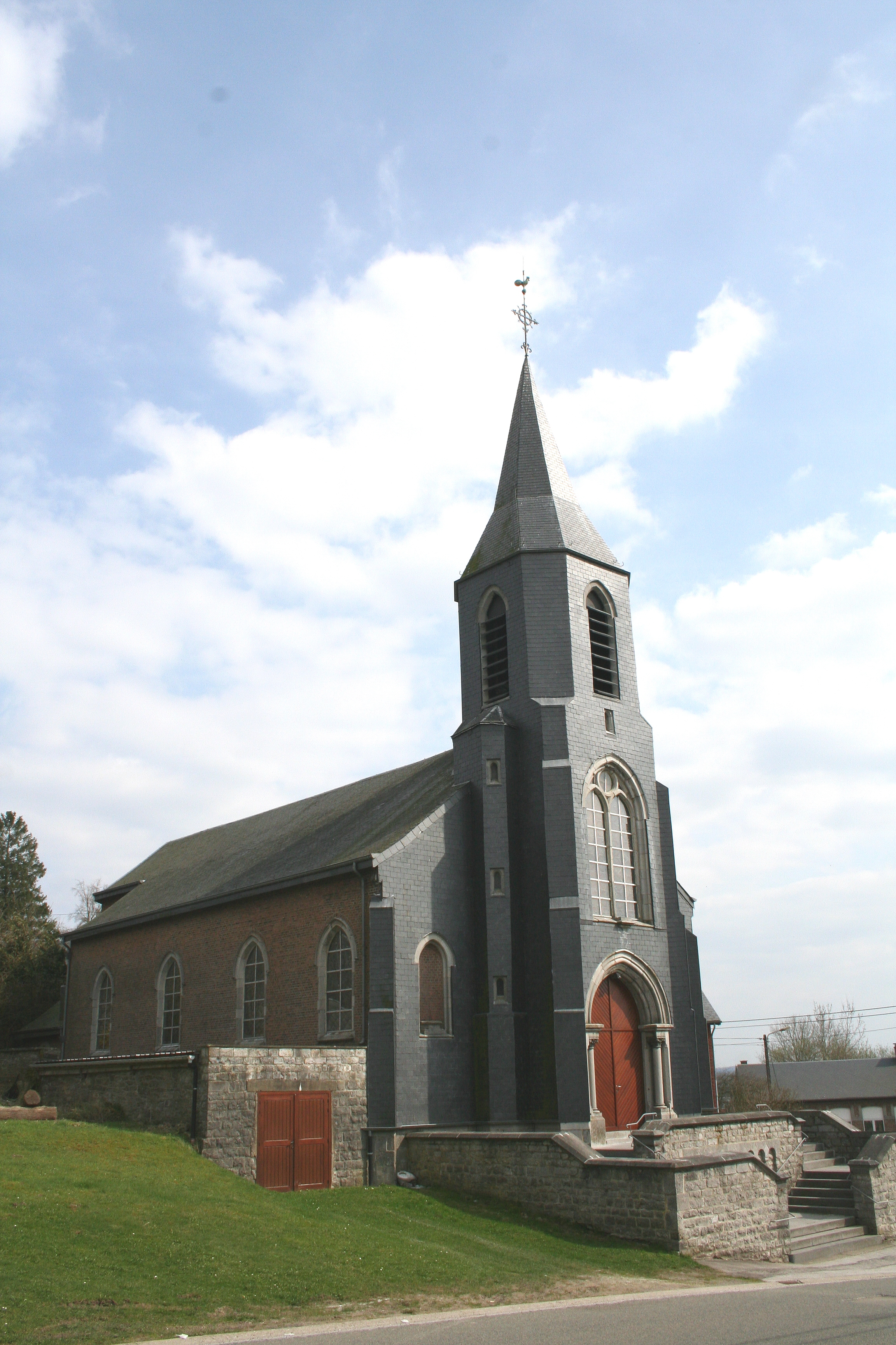 Sart-Custinne (Belgium), the St. Roch church (1871-1872).